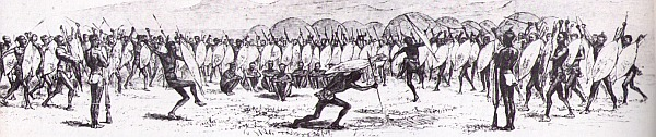 Reception of the Zooloos for Chaka Nathaniel Isaacs. Travels and Adventures in Eastern Africa. Descriptive of the Zoolus, their manners, customs, with a sketch of Natal. E. Churton Publishers. 1836